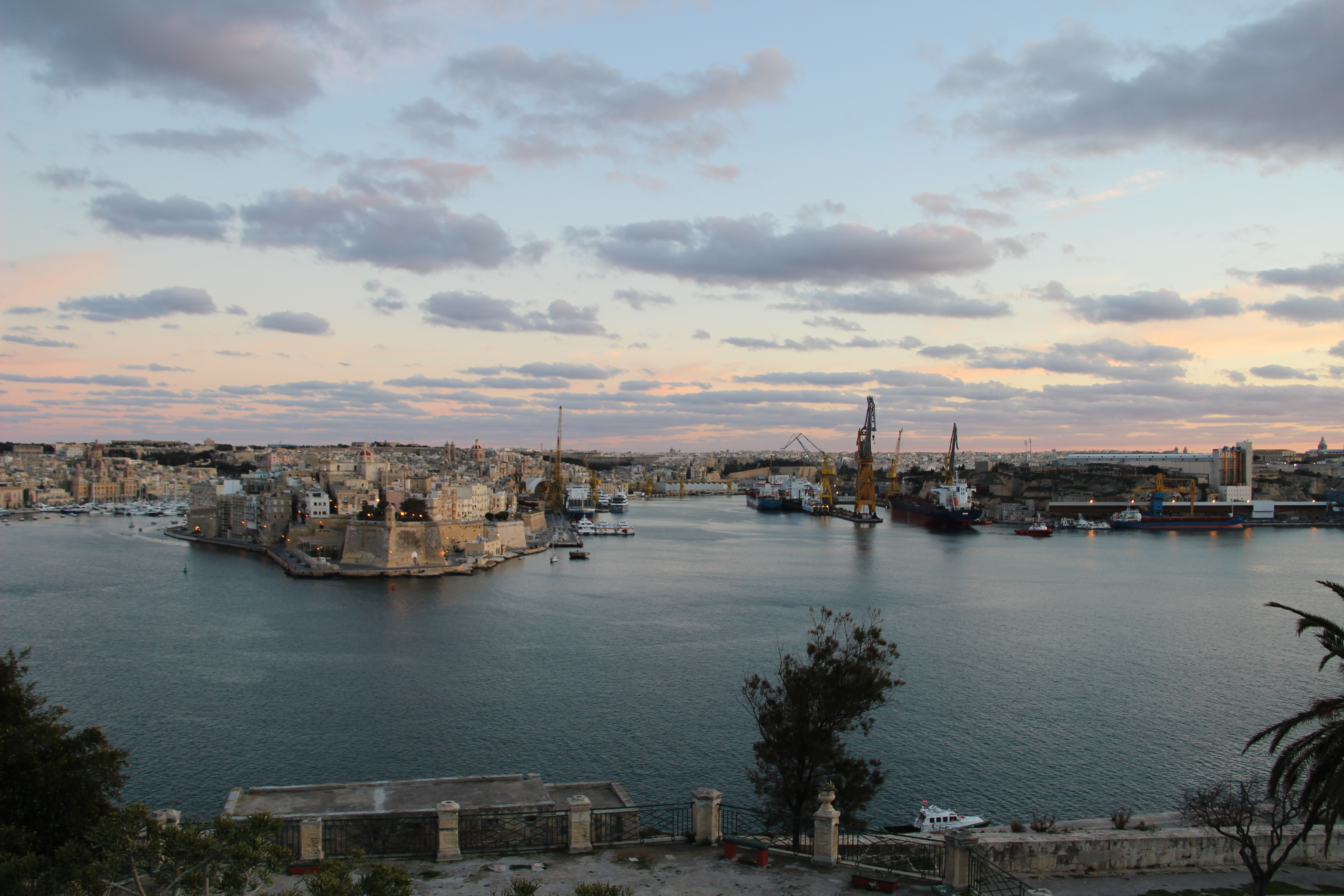 Grand Harbour from Triq Girolamo Cassar